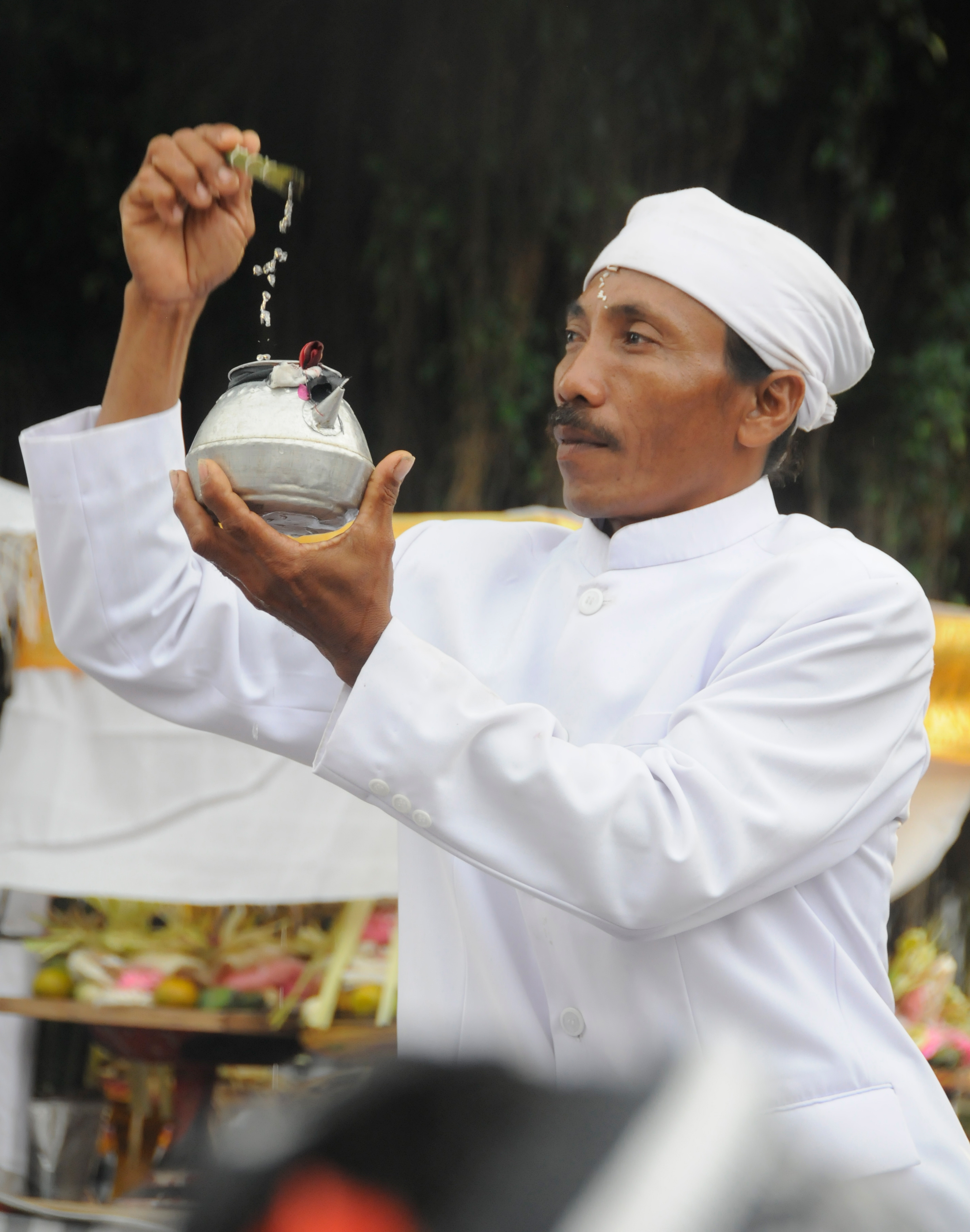 A priest officiating a Hindu ceremony in Bali Indonesia